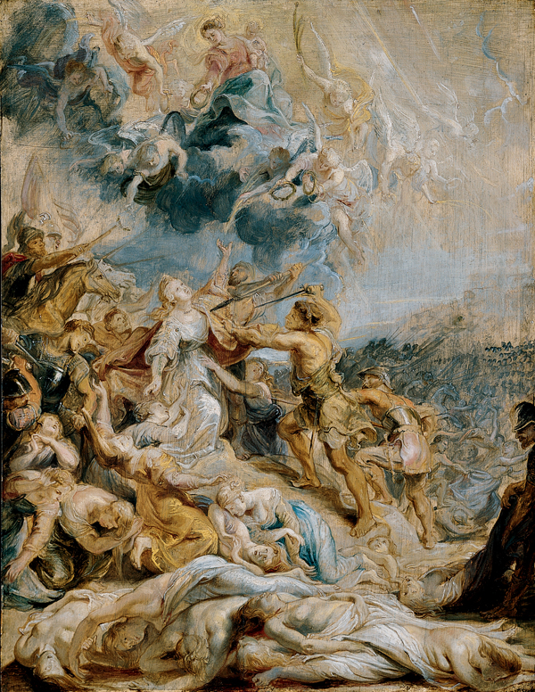 The Martyrdom of Saint Ursula and the Eleven Thousand Maidens